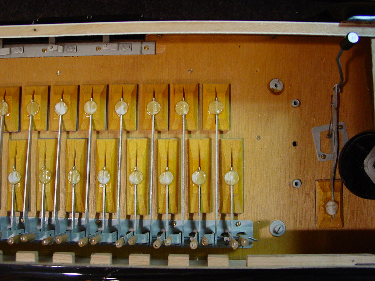 View into the bass casing of an accordeon showing the flaps (pallet) for opening the wind holes to the metall reed blocks. The flaps are operated by bass button mechanics. Pressing a bass button the corresponding flap (or flaps if the accordeon is in a multiple voice mode) open and enable air flow to the metal reeds